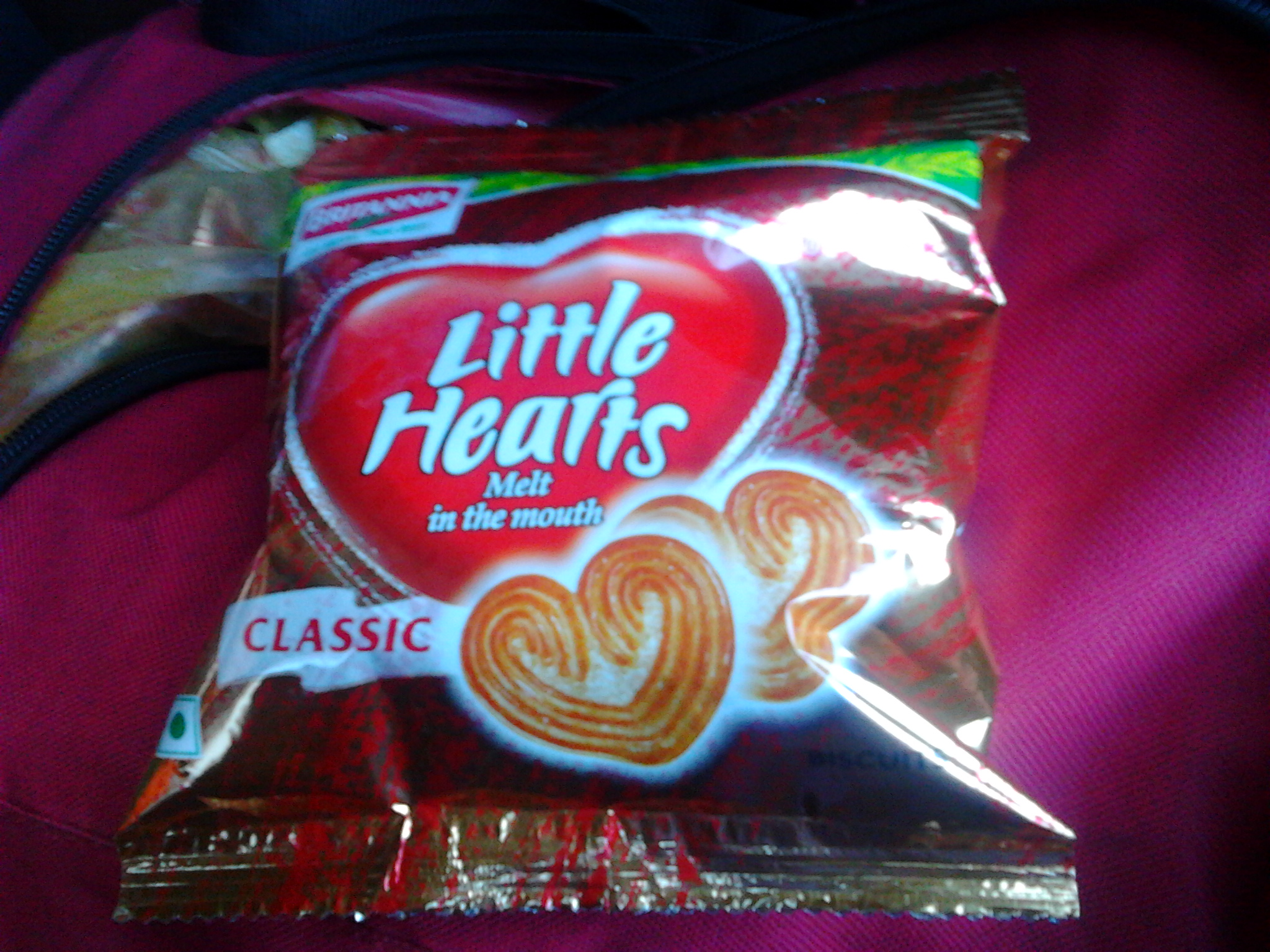 Photoed using Samsung Wave 525.